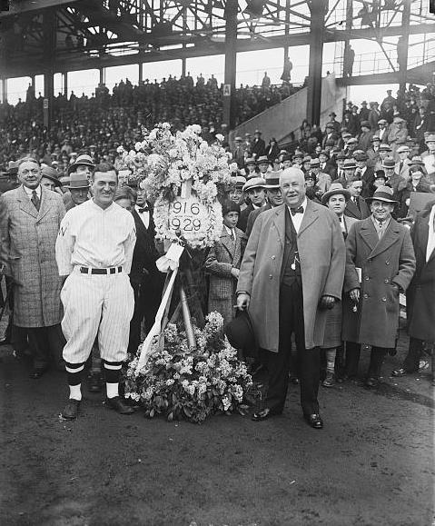 On behalf of the Elks of Washington, Joe Judge, captain of the Washington Baseball Team, was presented with a beautiful floral tribute today by Judge Robert E. Mattingly before the start of the first game